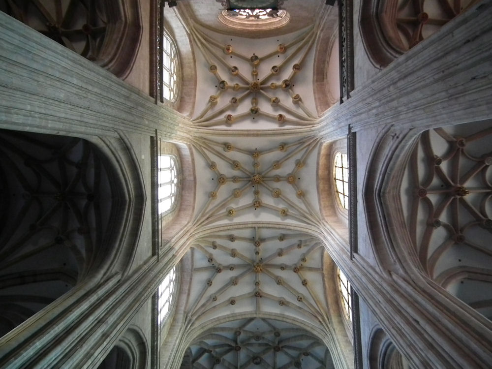 Gothic vaulting in the interior of the Catedral de Santa María, Astorga, León, Spain